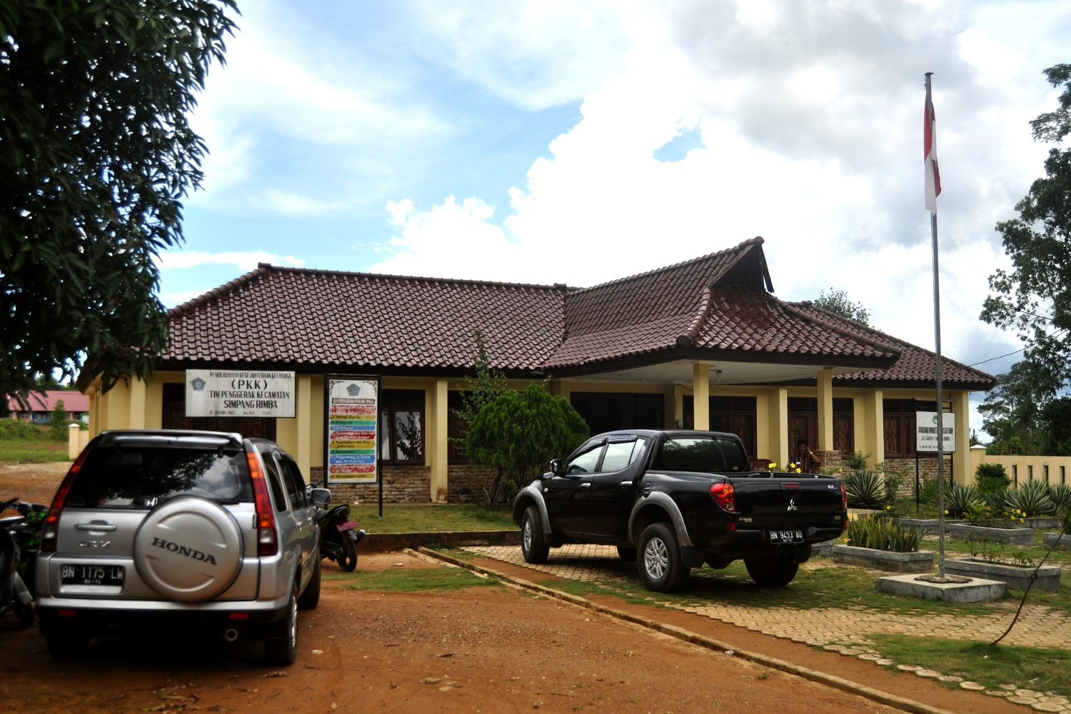 Simpang Rimba District office, South Banka, Indonesia.